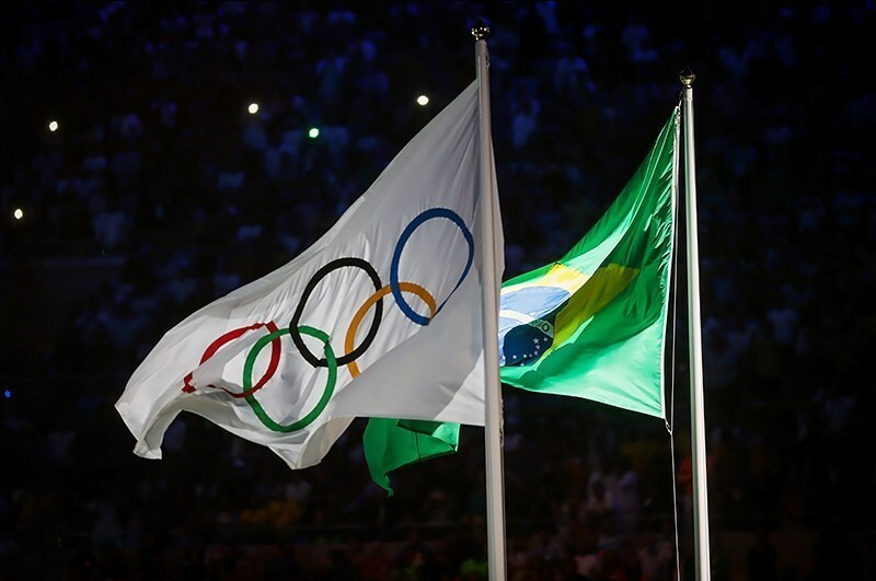 2016 Summer Olympics opening ceremony - photo news agency Tasnimnews